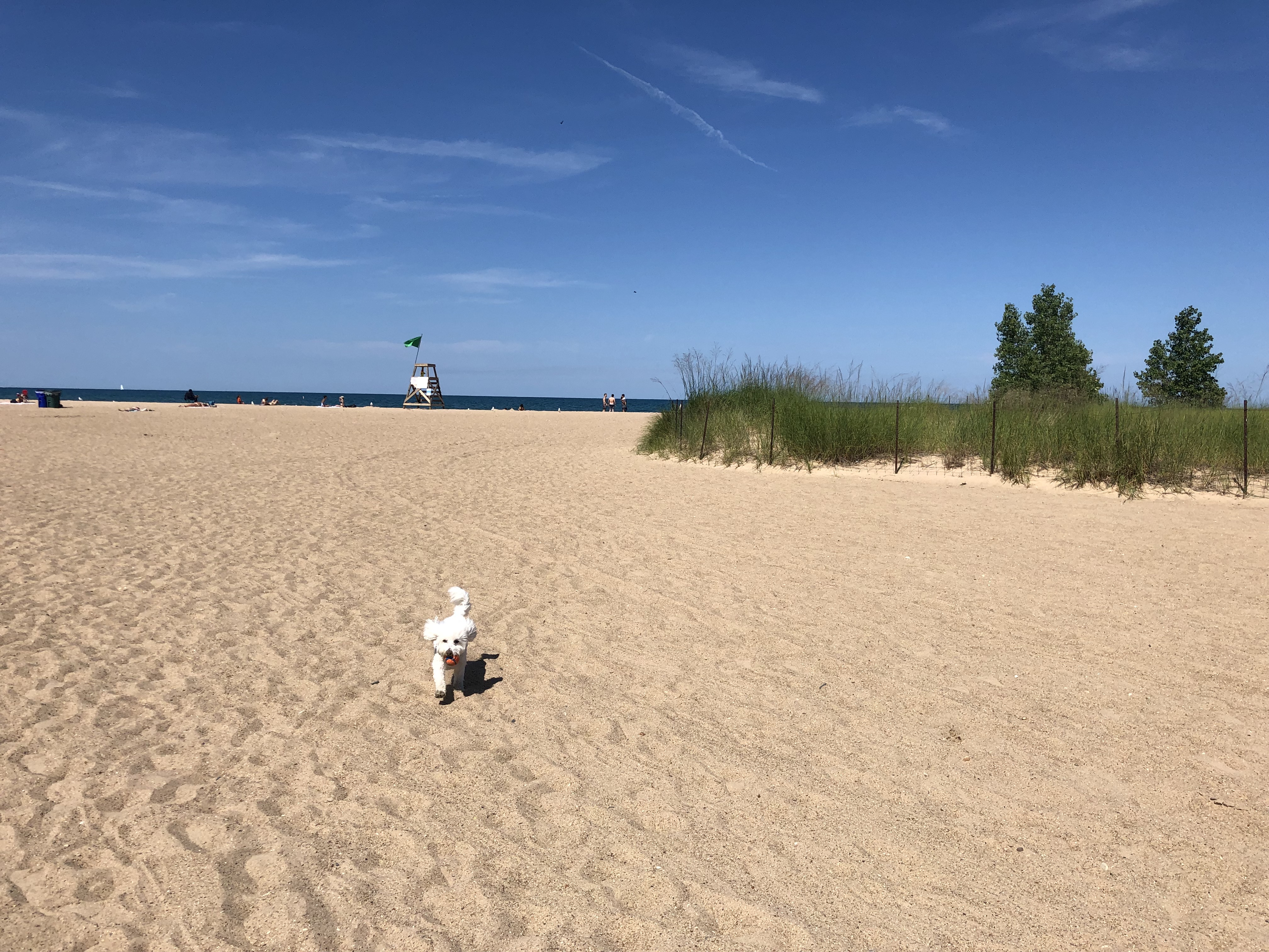 Image of rogers park beach during the day